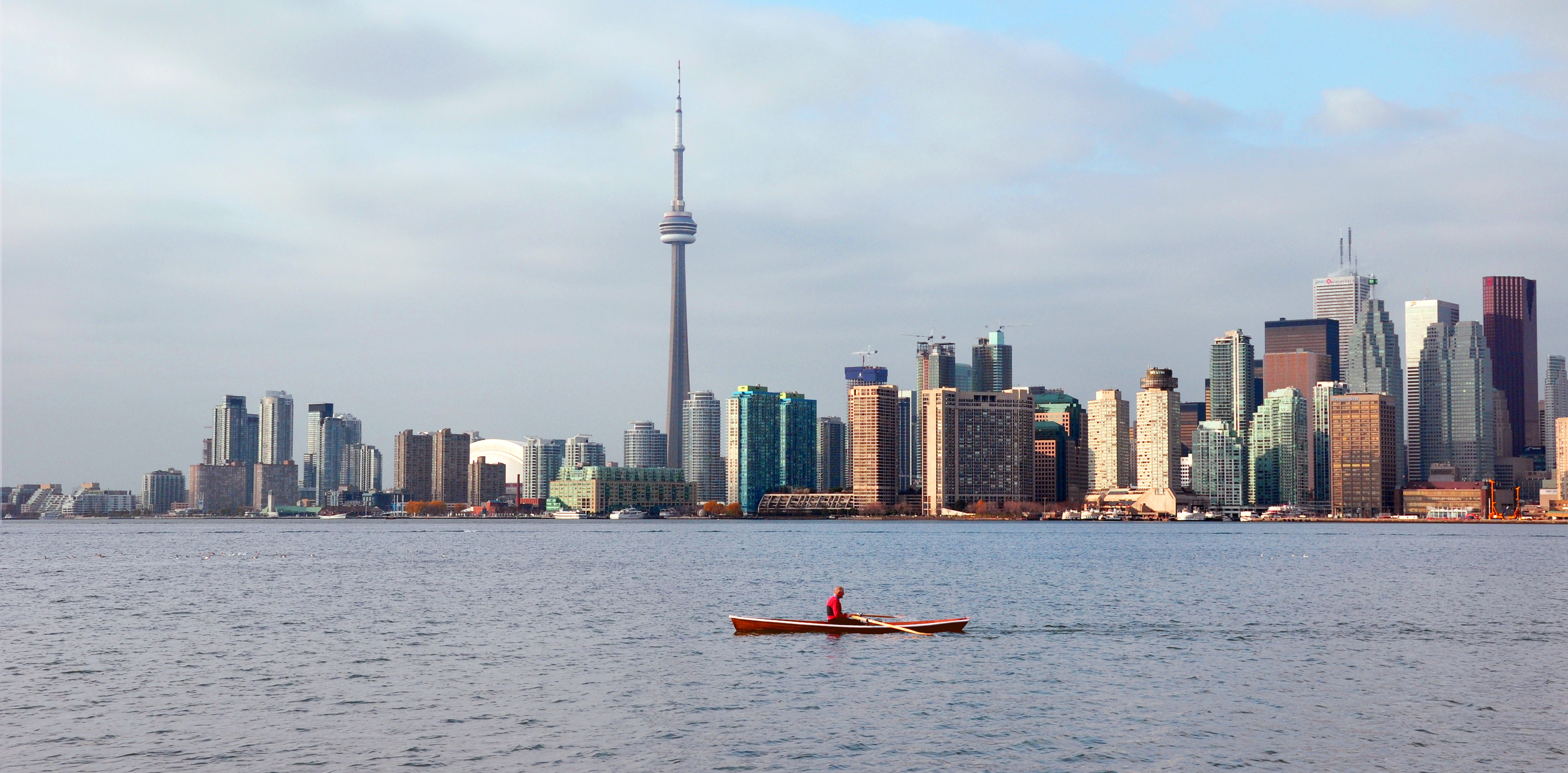 Toronto skyline seen from Toronto Islands 2009